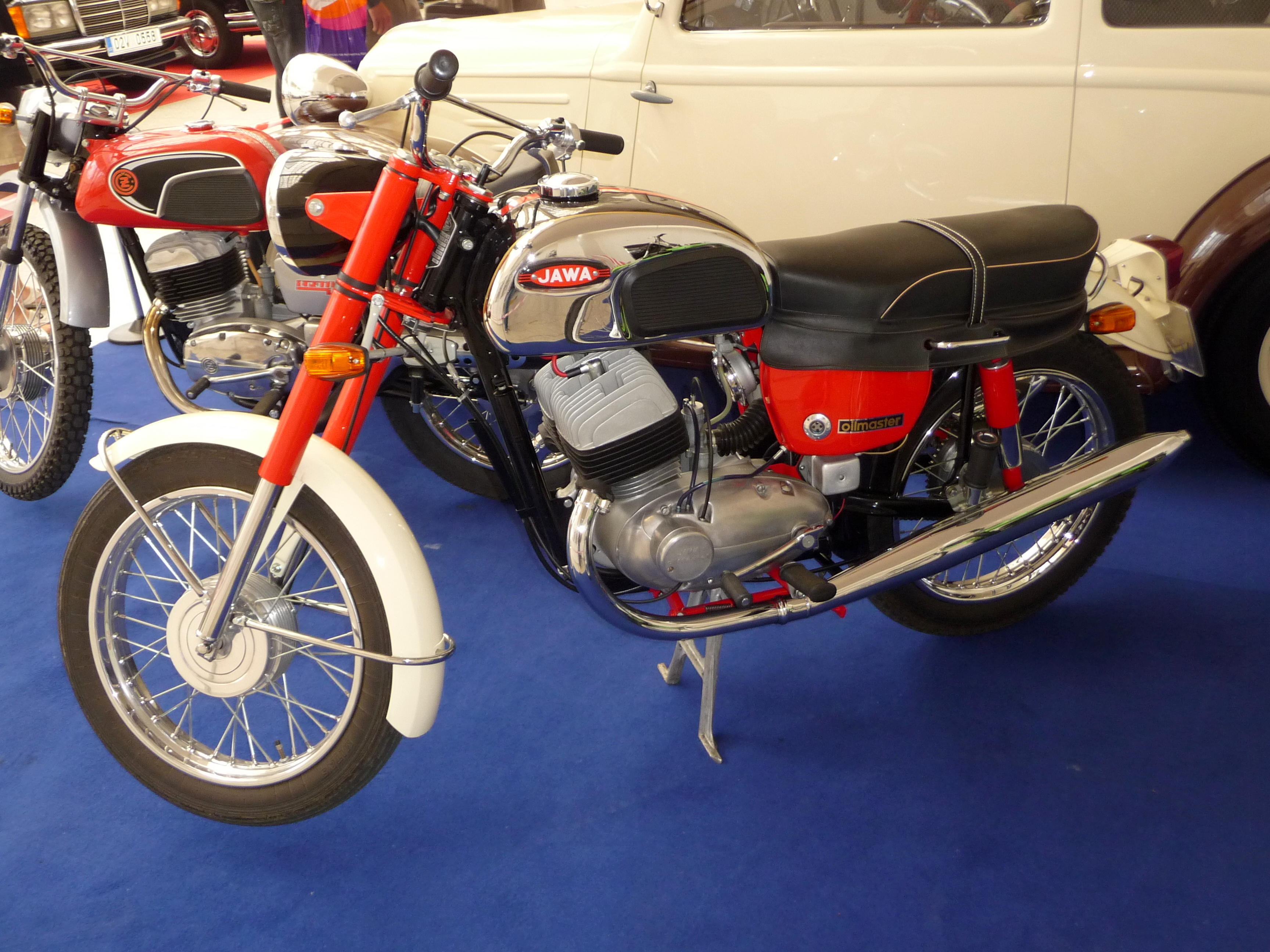 Jawa motorcycle, Classic Show Brno 2011, The Brno Exhibition Grounds -10 -5 -3 -2 ◄ ► +2 +3 +5 +10